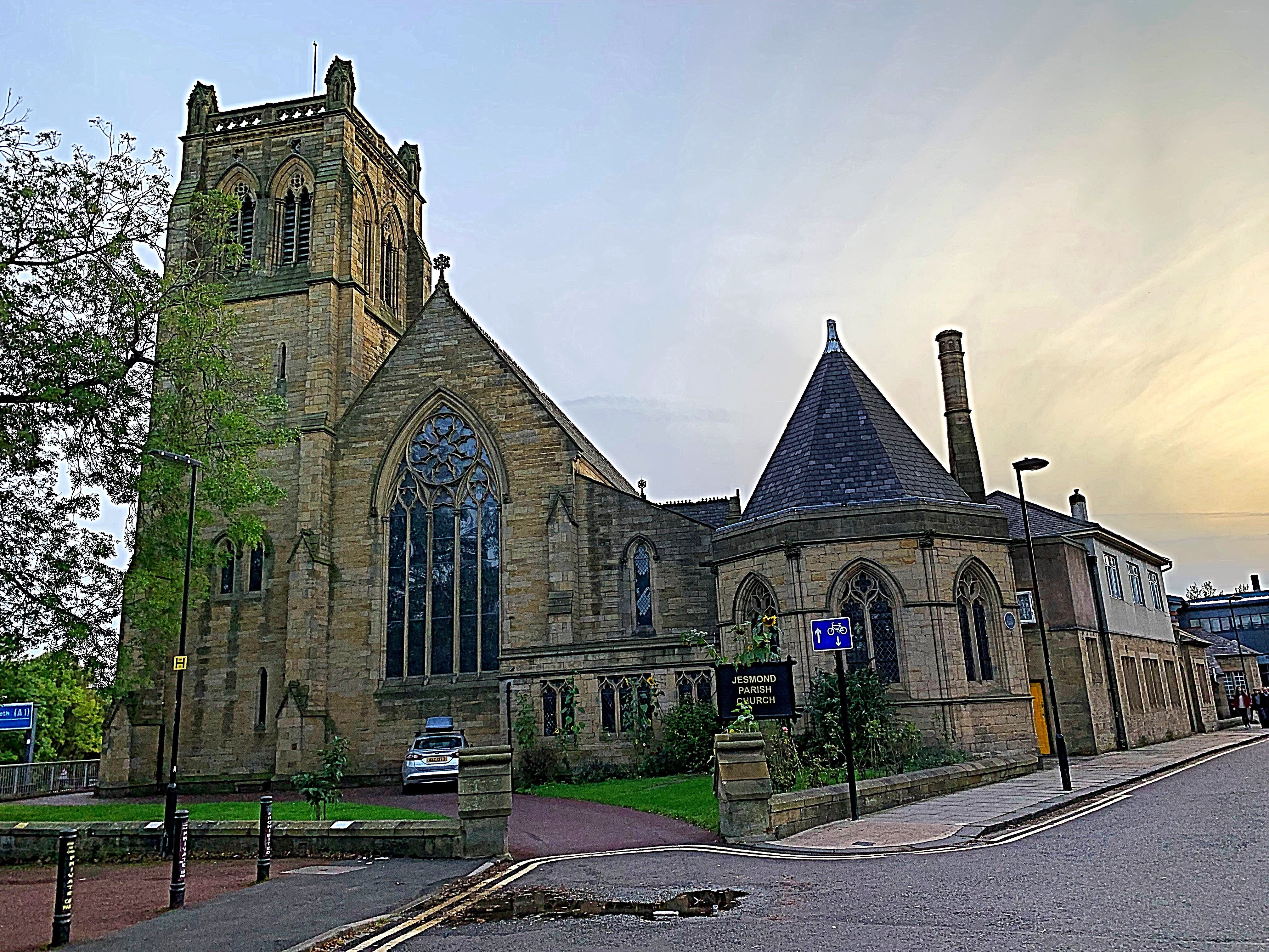 Jesmond Parish Church And Choir Vestry Attached Wikidata has entry Q26409259 with data related to this item.